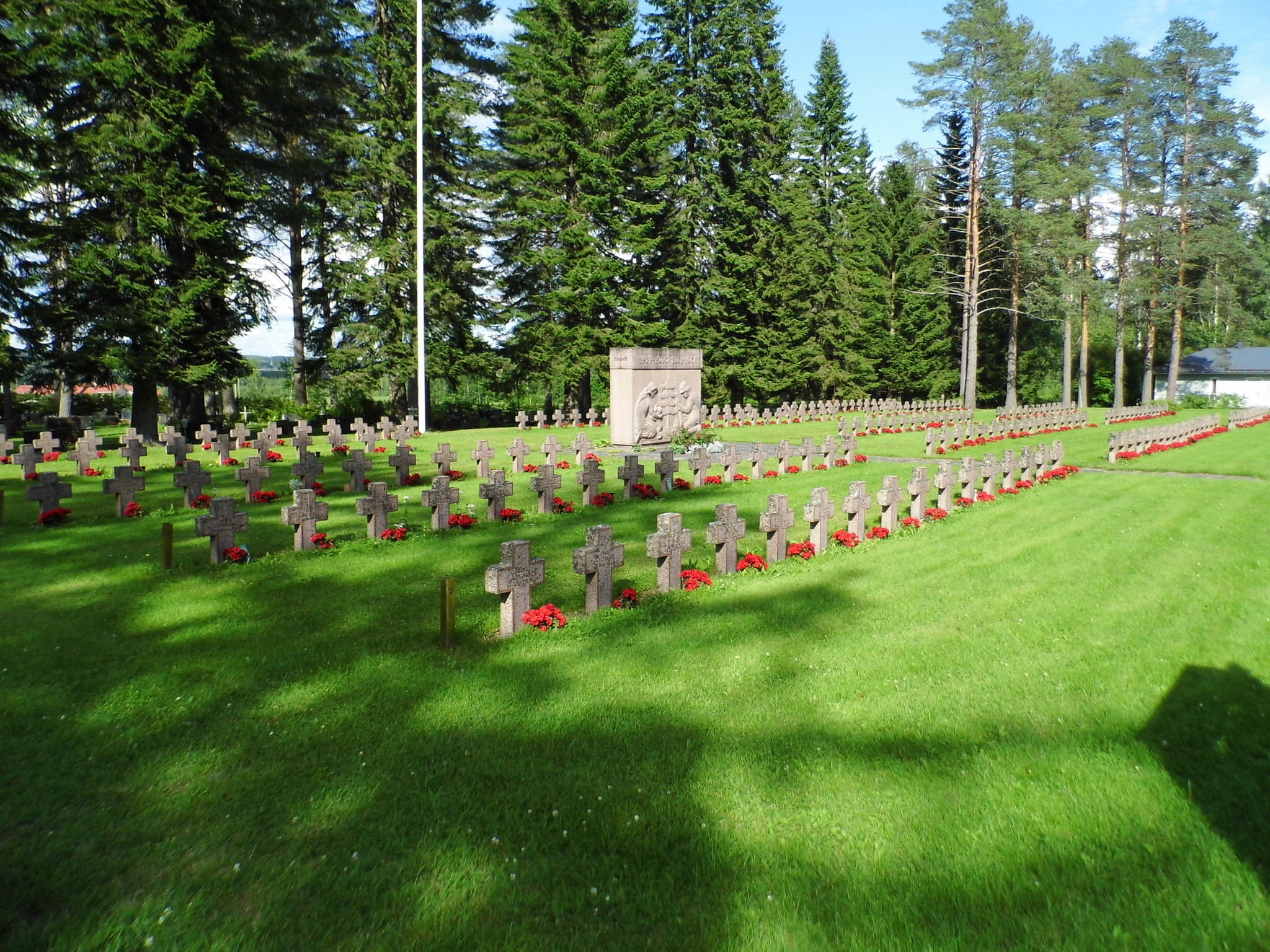 Military cemetary at church in Vieremä, Finland